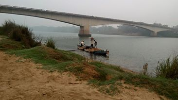 Patrapur Bridge on Brahmani River in Pattamundai along SH-9A ଓଡ଼ିଆ: ପତ୍ରପୁର ପୋଳୋ, ପଟ୍ଟାମୁଣ୍ଡାଇ, କେନ୍ଦ୍ରାପଡ଼ା, ଓଡିଶା, ଭାରତ